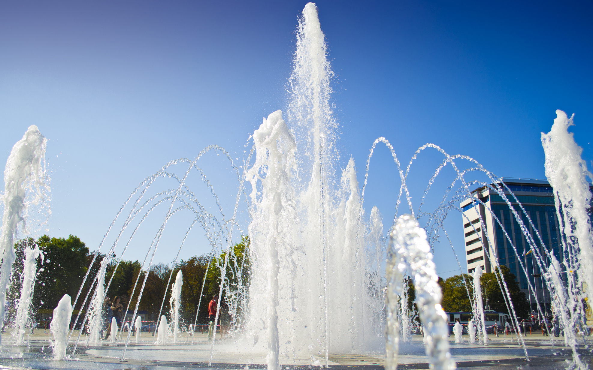 The Theatre Square Splash Fountain in Krasnodar